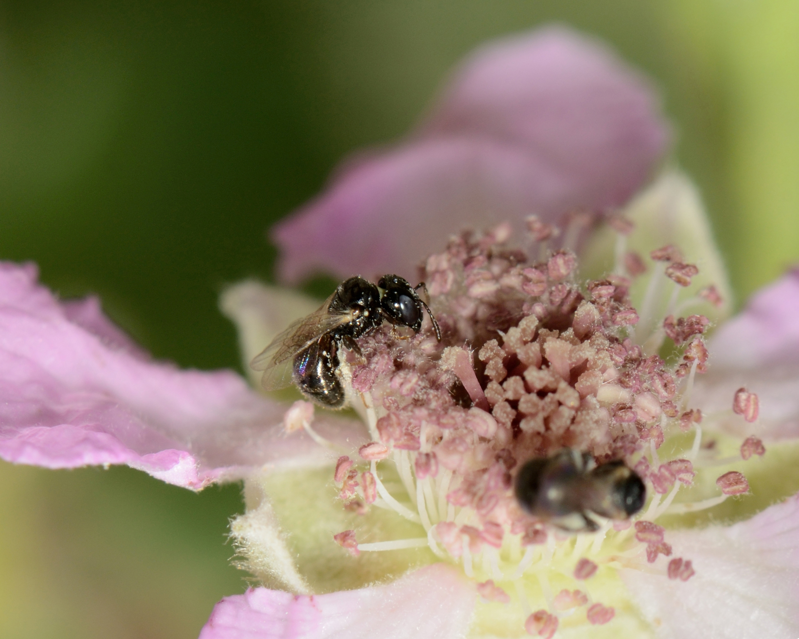 Ceratina parvula, female collecting pollen from Rubus anatolicus, Ein Kedem, Mount Carmel, Israel, September 11, 2012. Det. Michaël Terzo 2012.